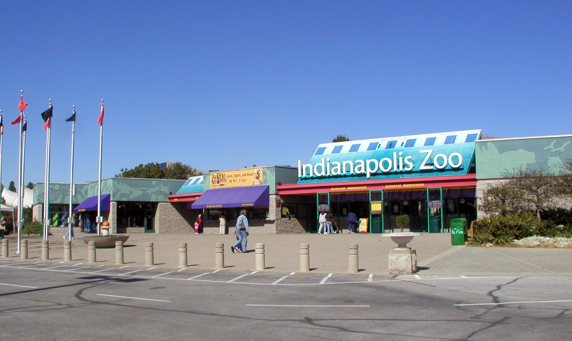 Entrance to the Indianapolis Zoo.